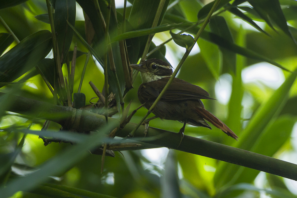 White-collared Foliage-Gleaner - Intervales NP - Brazil_S4E0118